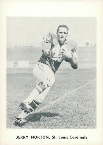 A promotional image of St. Louis Cardinals American football player Jerry Norton.